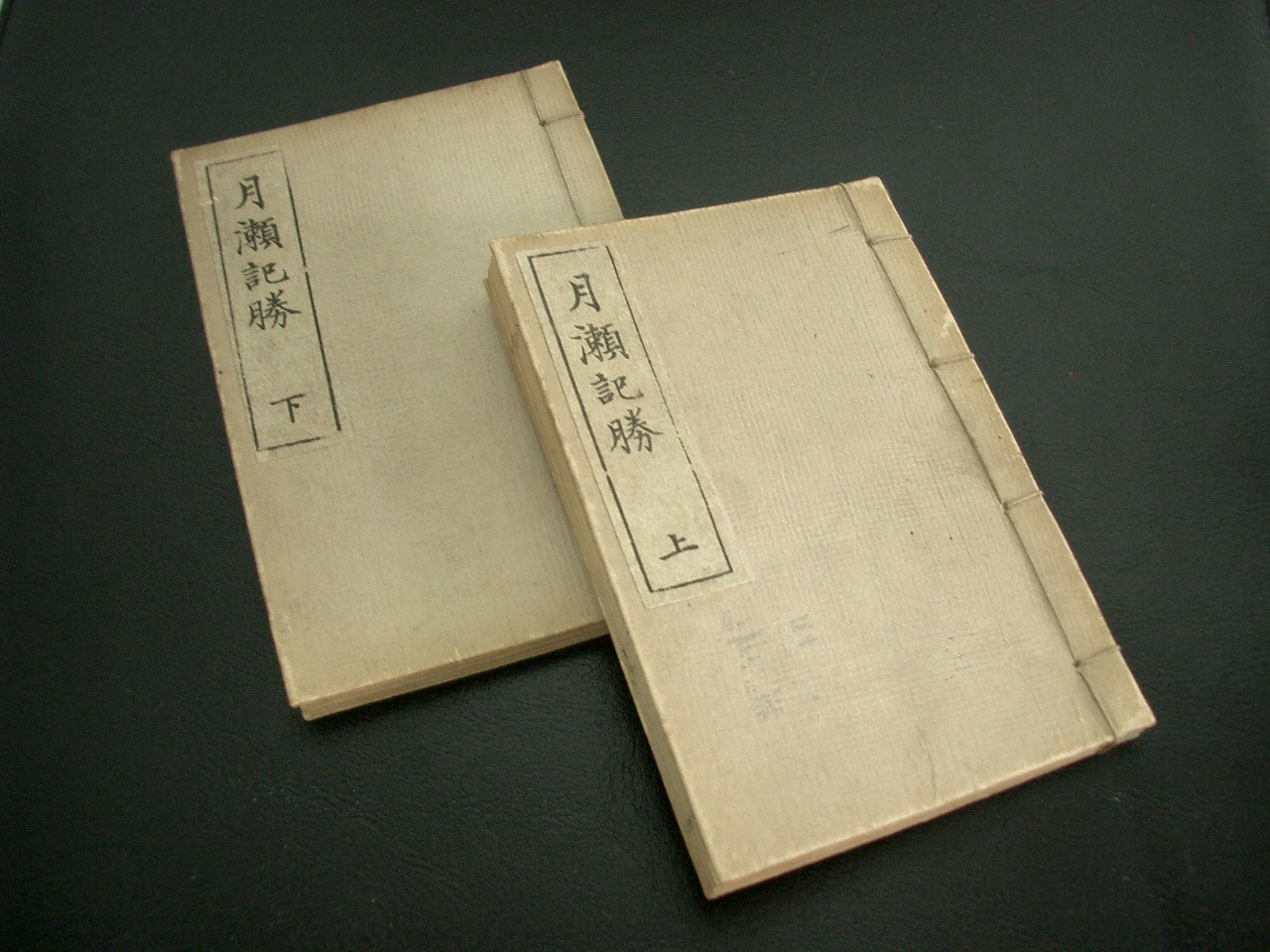 The portable manuscript books of "Tsukigase Kisho/Getsurai Kisho (月瀬記勝) written by Saito Setsudo (斎藤拙堂)" in 1884, published by Shikada Seishichi (鹿田静七), Japan. Book size (WxHxD): 8.5cm x 12cm x 0.8cm ja: 斎藤拙堂著『月瀬記勝』携帯型写本、1884年（明治17年）鹿田静七刊 大きさ (幅x高x厚): 8.5cm x 12cm x 0.8cm